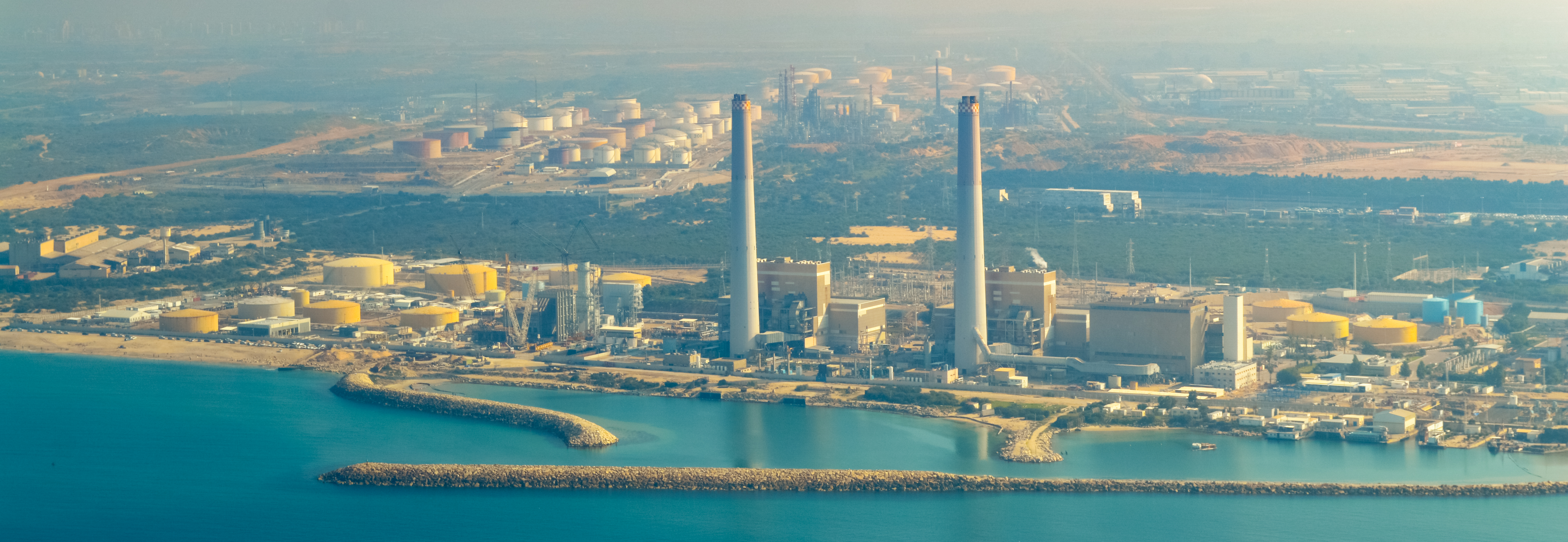 Eshkol Power Station Aerial View